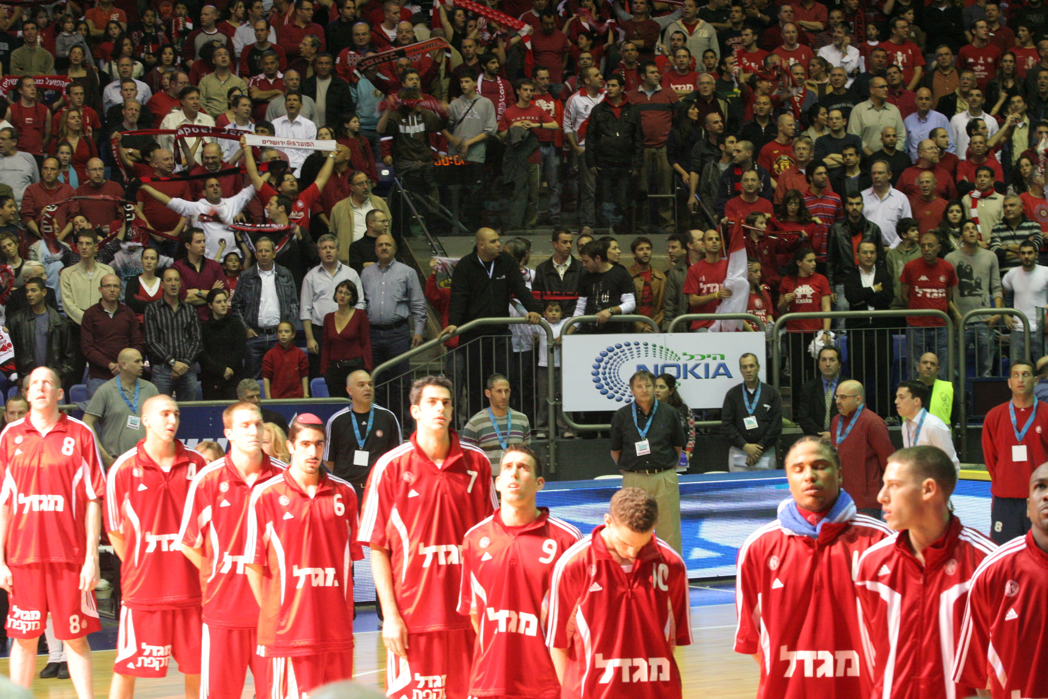 Hapoel Jerusalem Basketball Players